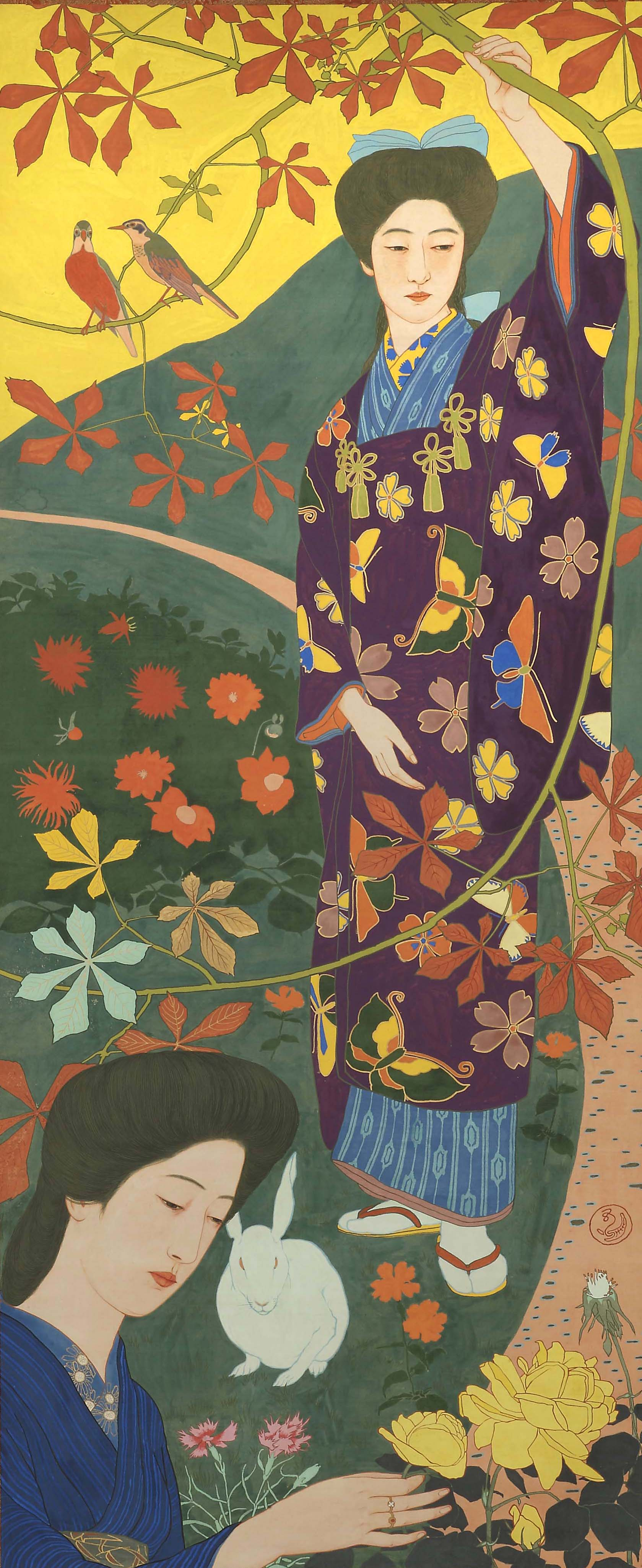 Yellow rose (Kibara), original painting